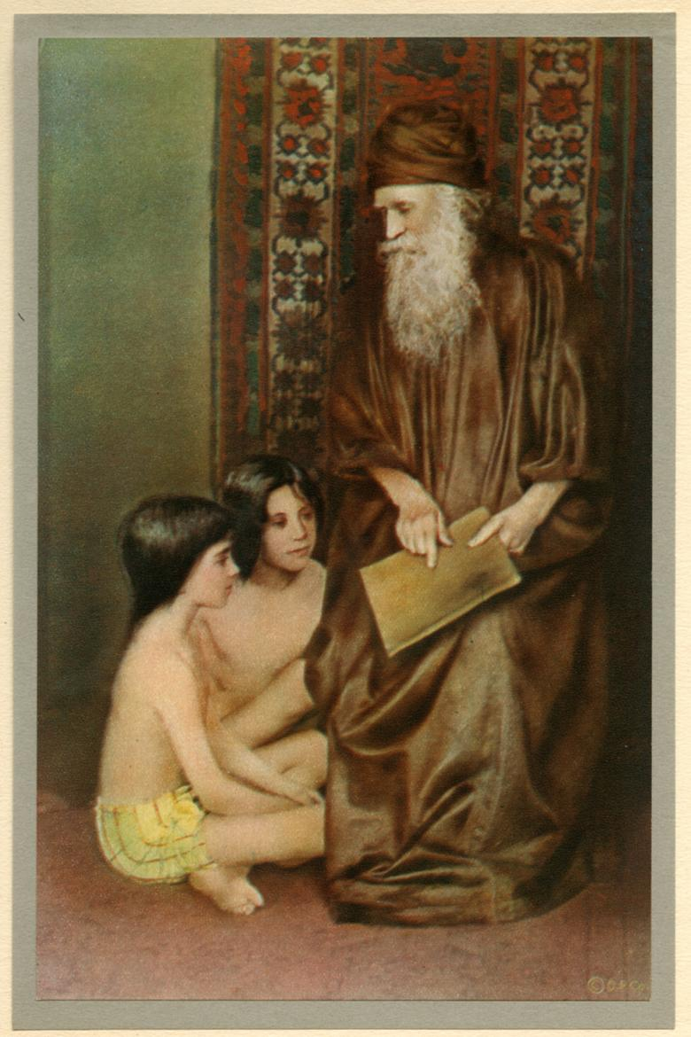 Myself when young